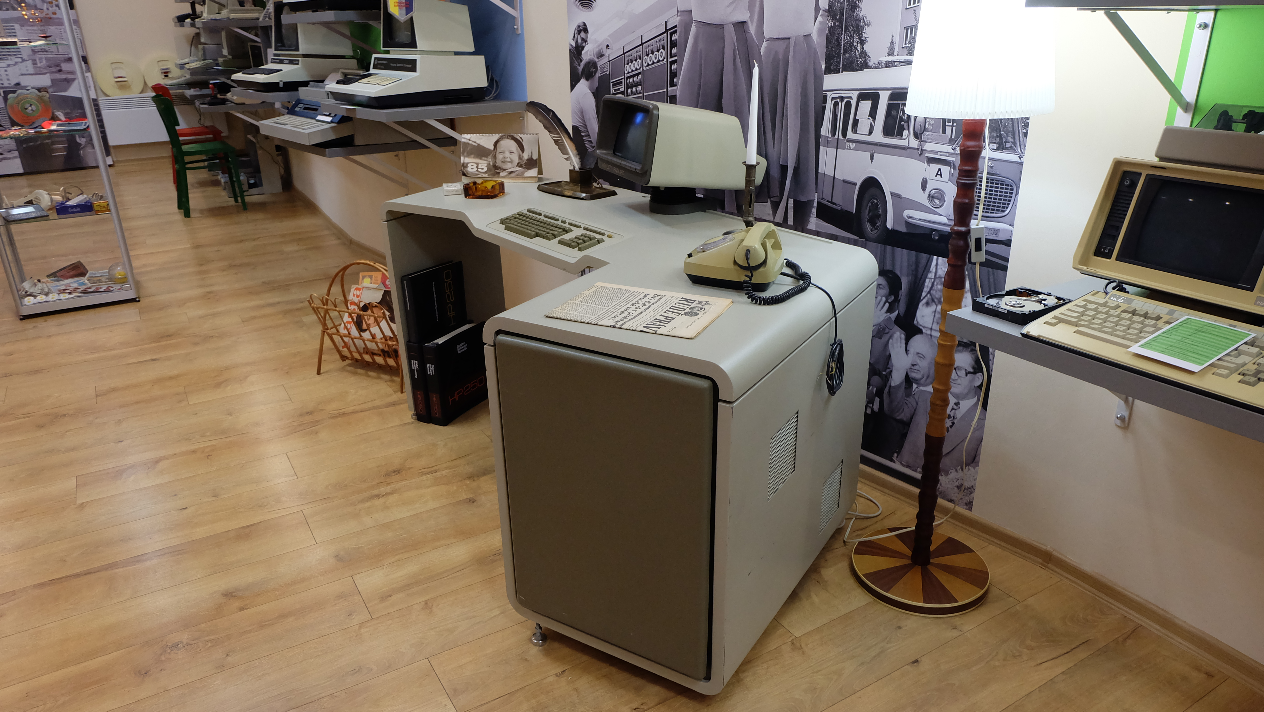 HP-250. Year 1978. Functional. Located in Zatec, Czech Republic.